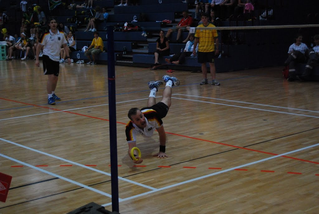 Ringtennis in action during the 2010 World Championships (men's doubles).